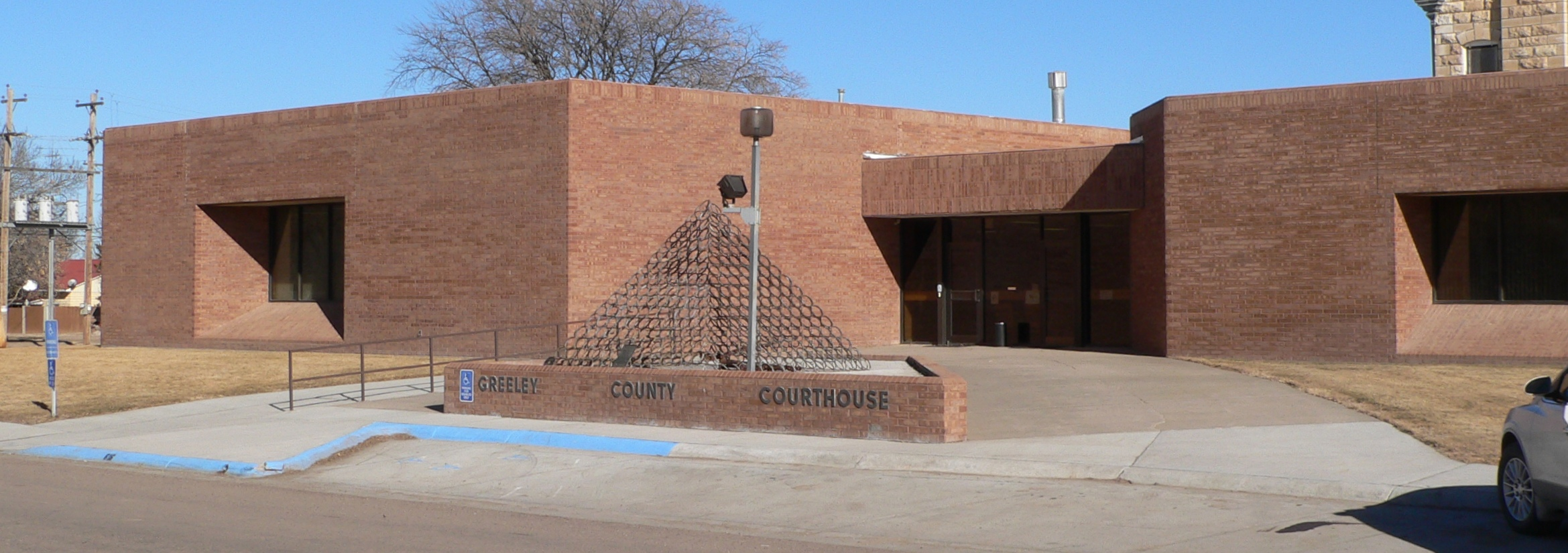 Front (west) entrance of Greeley County courthouse in Tribune, Kansas. The courthouse was built in 1975.